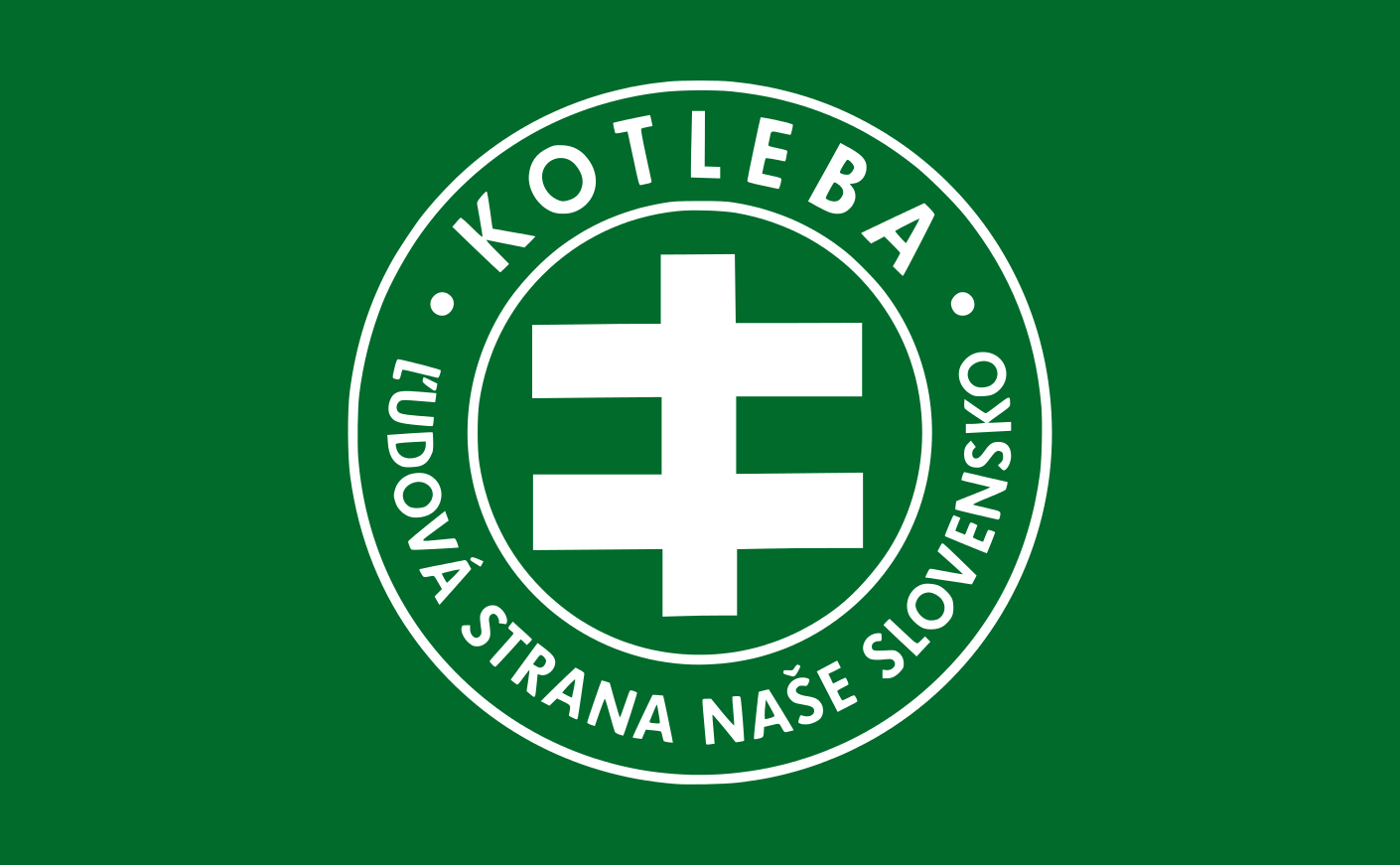 Flag of Slovak political party